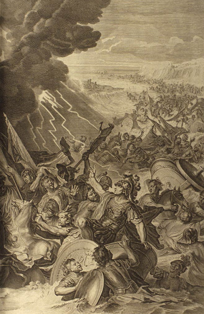 Pharaoh and his host drowned in the red Sea (right page), as in Exodus 14:23-28, "And the Egyptians pursued, and went in after them to the midst of the sea, even all Pharaoh's horses, his chariots, and his horsemen. And it came to pass, that in the morning watch the Lord looked unto the host of the Egyptians through the pillar of fire and of the cloud, and troubled the host of the Egyptians, And took off their chariot wheels, that they drave them heavily: so that the Egyptians said, Let us flee from the face of Israel; for the Lord fighteth for them against the Egyptians. And the Lord said unto Moses, Stretch out thine hand over the sea, that the waters may come again upon the Egyptians, upon their chariots, and upon their horsemen. And Moses stretched forth his hand over the sea, and the sea returned to his strength when the morning appeared; and the Egyptians fled against it; and the Lord overthrew the Egyptians in the midst of the sea. And the waters returned, and covered the chariots, and the horsemen, and all the host of Pharaoh that came into the sea after them; there remained not so much as one of them."; illustration from the 1728 Figures de la Bible; illustrated by Gerard Hoet (1648–1733) and others, and published by P. de Hondt in The Hague; image courtesy Bizzell Bible Collection, University of Oklahoma Libraries